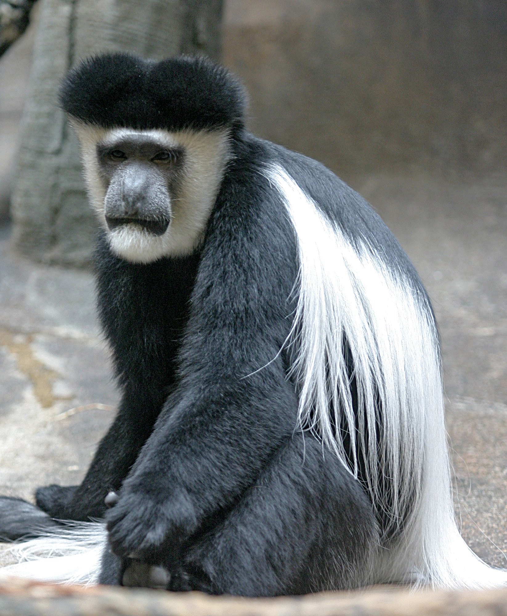 Mantled Guereza at the Henry Doorly Zoo in Omaha, Nebraska